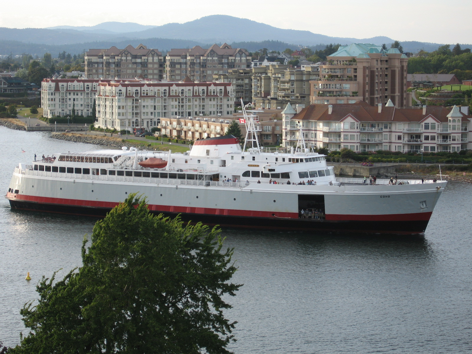 Coho ferry entering Victoria, B.C., Canada IMO Number: 5076949 MMSI Number: 366929710 Callsign: WM4599 Length: 105.0 m Beam: 15.0 m Author: Webber Source: "own work" This ferry sails between Victoria and Port Angeles, Washington.